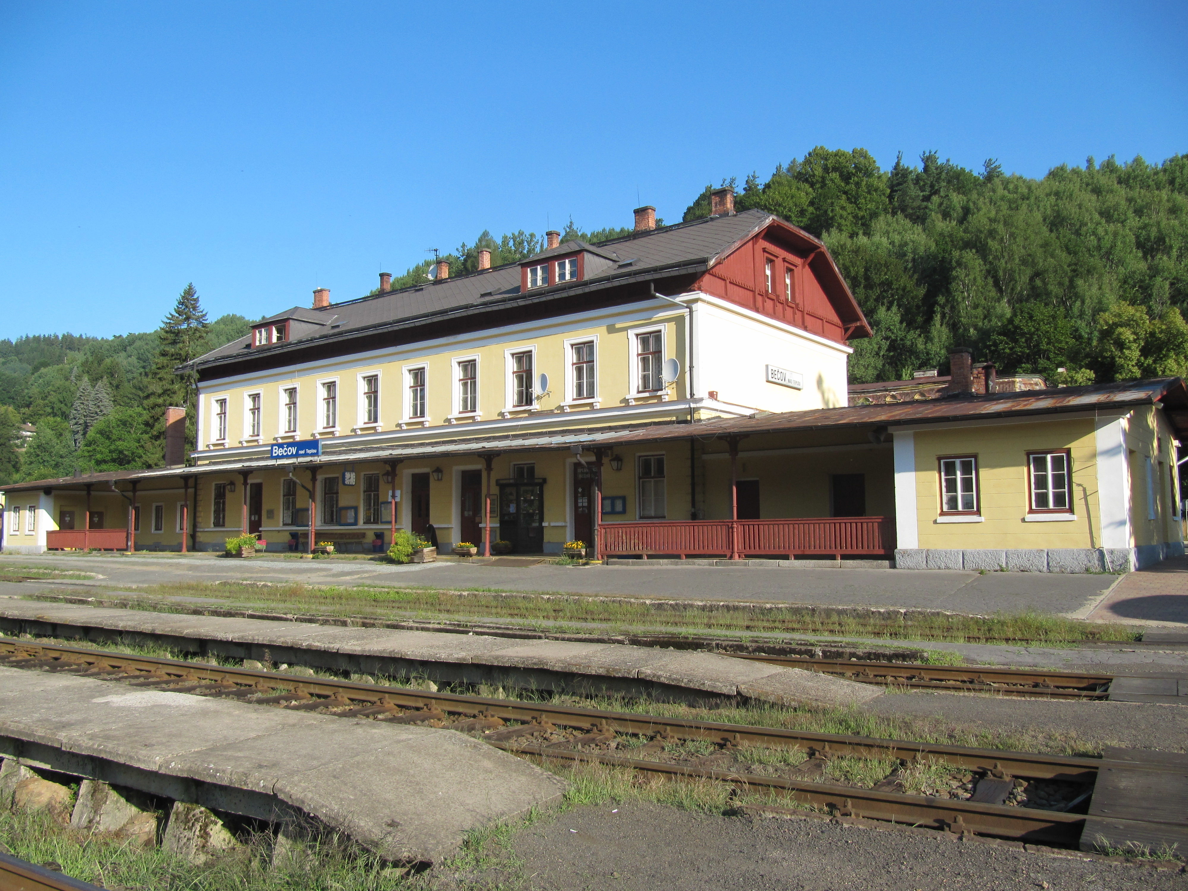 Bečov nad Teplou, Karlovy Vary District, Czech Republic.